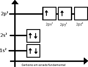 Carbon.